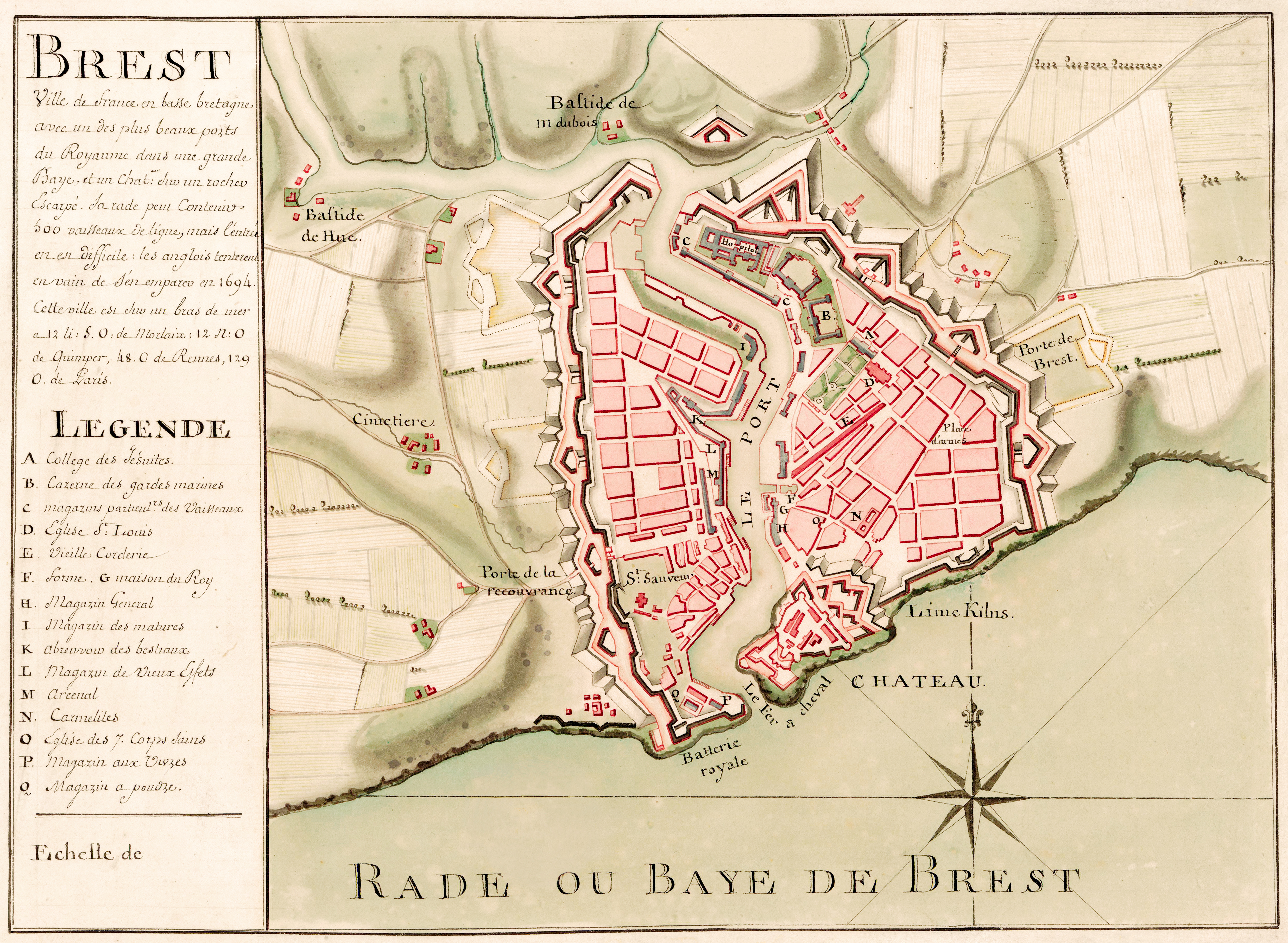 Title: Brest, city of France in Lower Brittany with one of the Kingdom's largest ports in a large bay. Handwritten cartographic material of the city of Brest and fortifications.